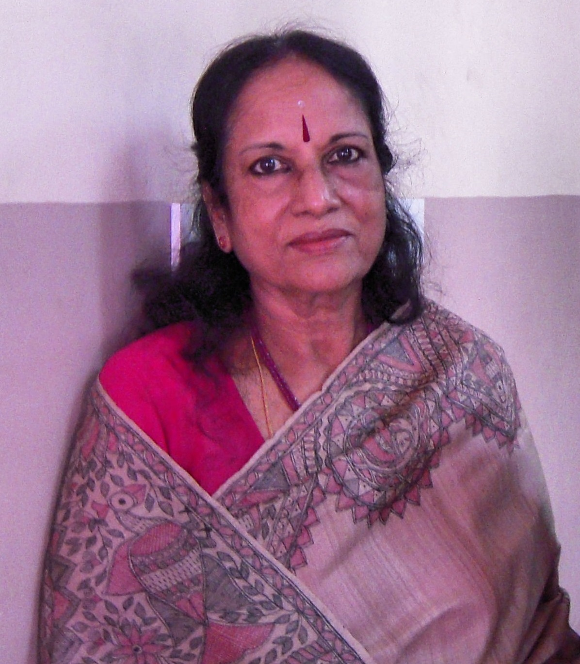 GS RAJAN